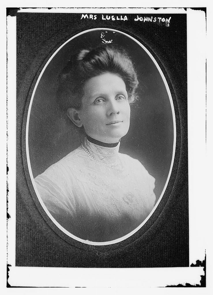 Portrait of Luella Johnston, circa the 1910s. This was the file photo used when Mrs. Johnston ran for the office of City Commissioner in Sacramento, CA.